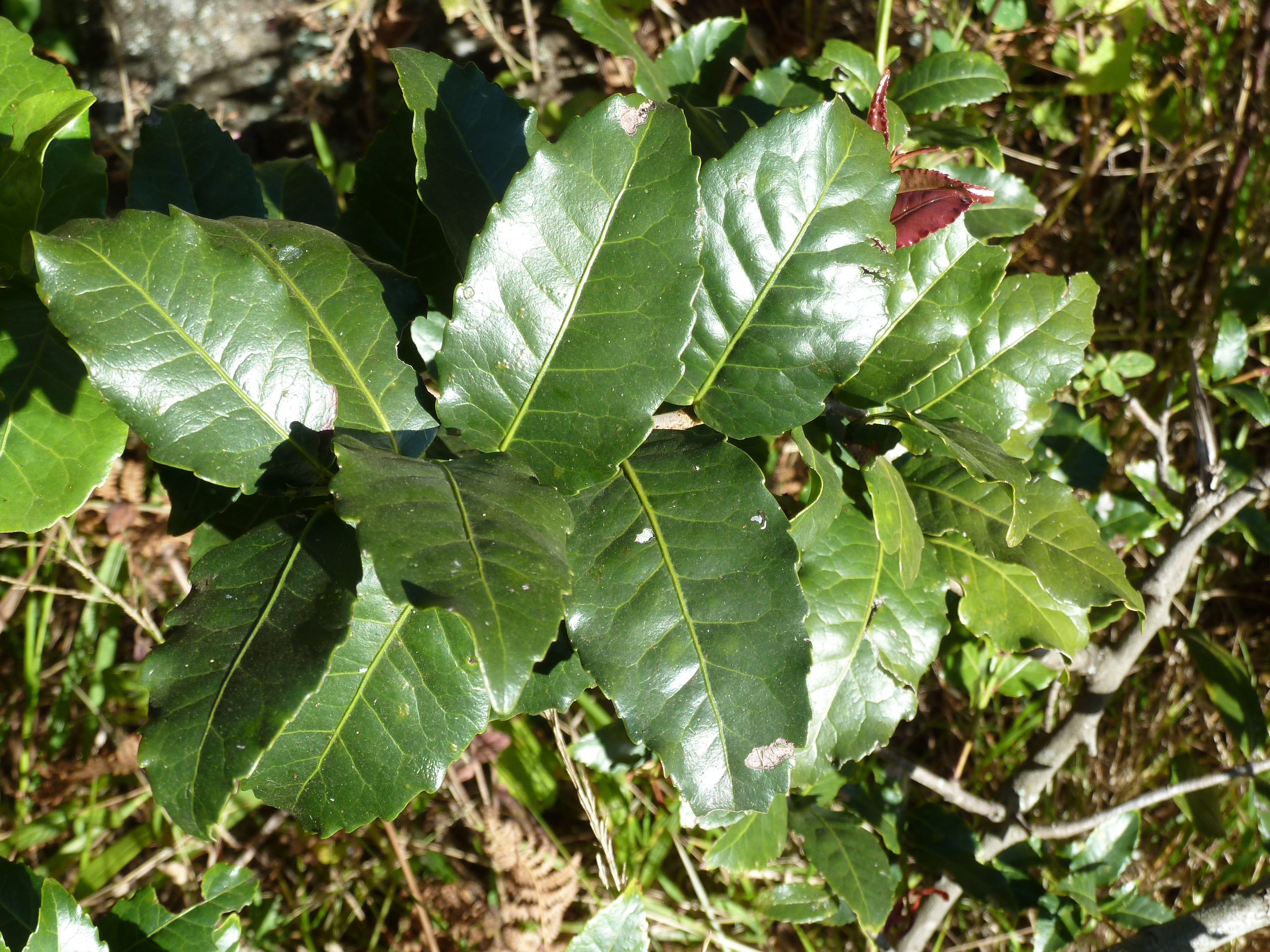 Leaves of a Climbing-saffron, near Louwsburg, KwaZulu-Natal